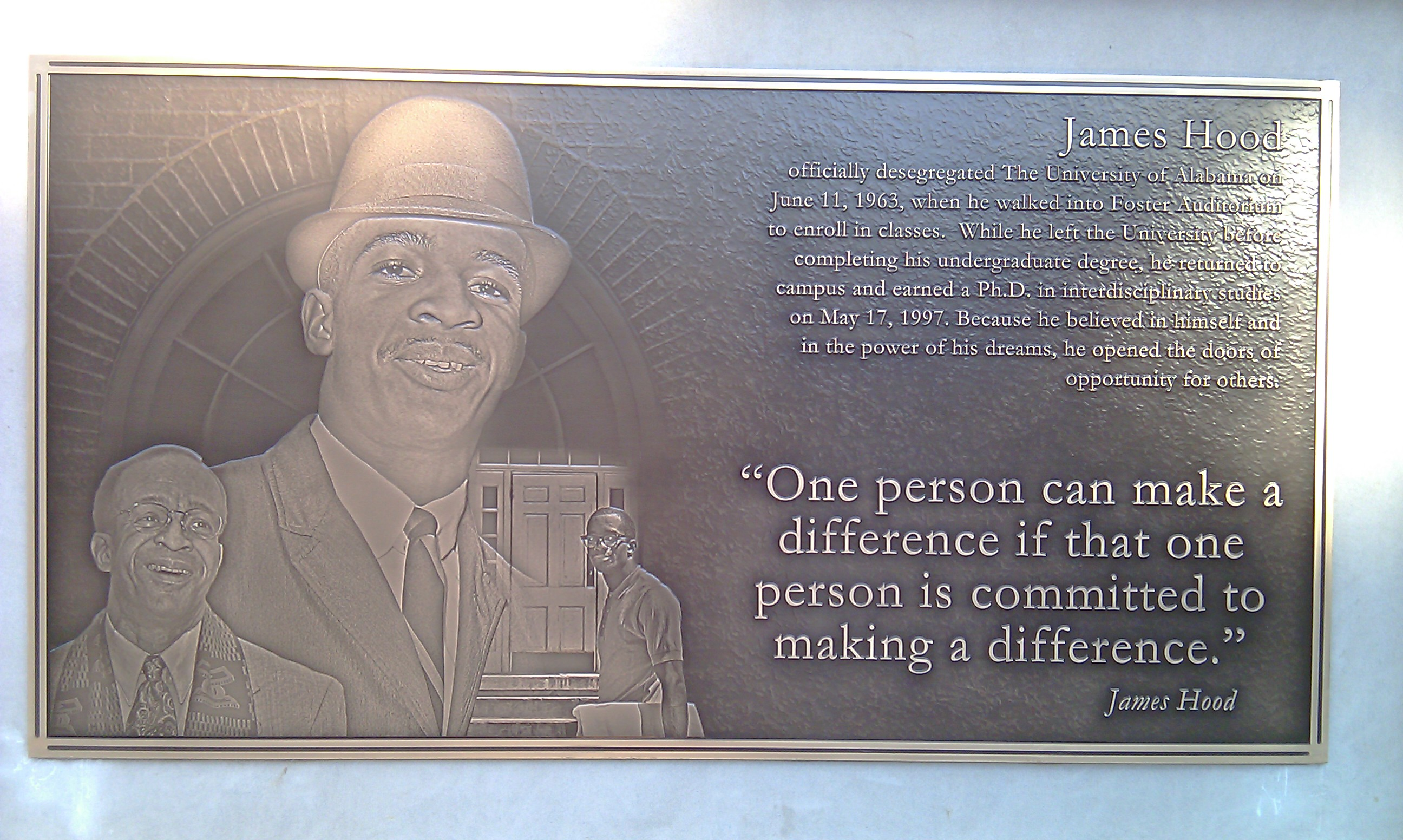 Plaque commemorating James Hood on the west face of the Autherine Lucy Clock Tower in Malone Hood Plaza on the campus of the University of Alabama in Tuscaloosa, Alabama.